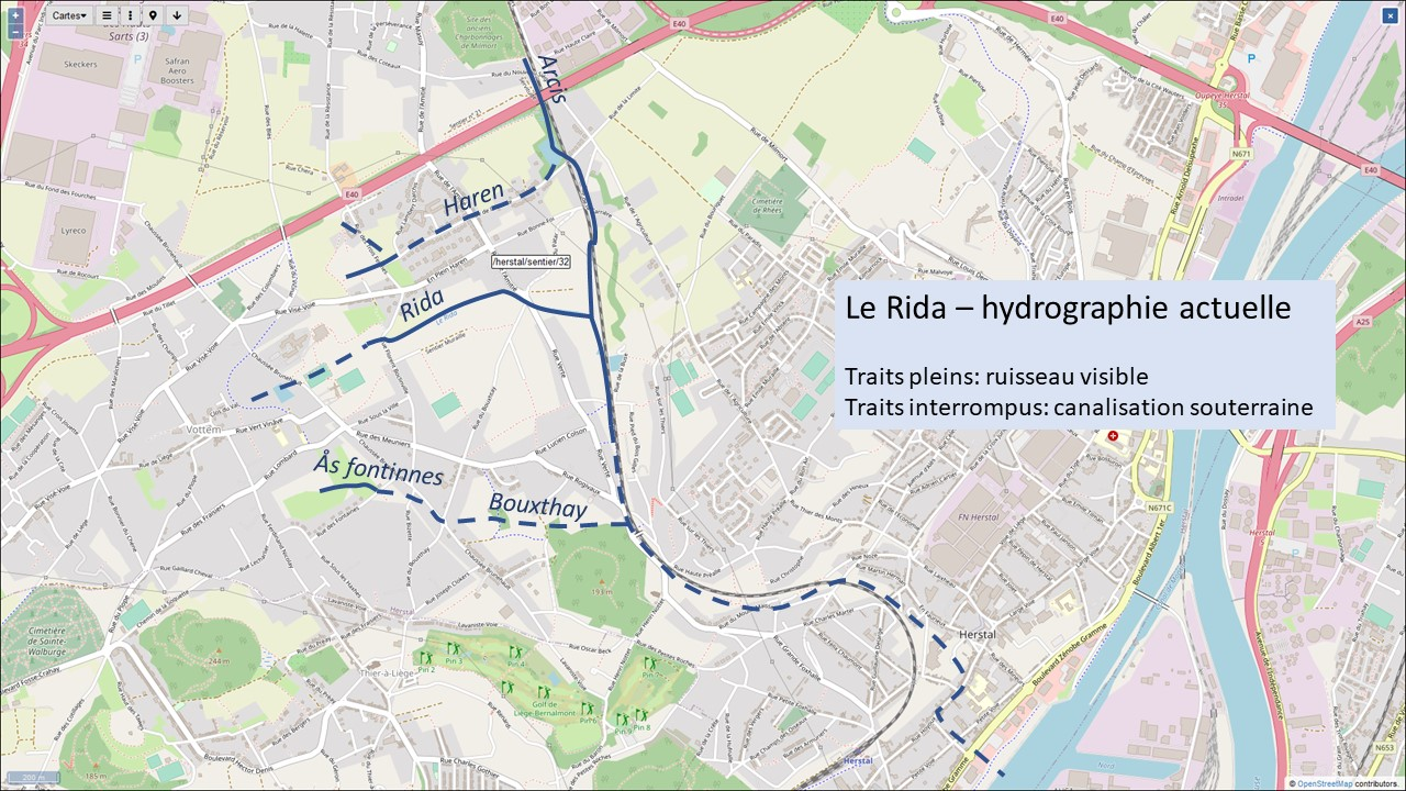 Rida River hydrography (base map (c) OpenStreetMap contributors)